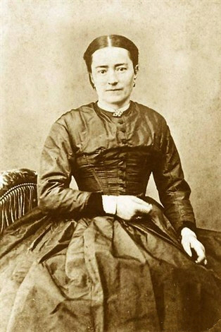 Marie-Azélie "Zélie" Martin née Guérin (1831-1877), beatified, wife of Blessed Louis Martin, mother of Saint Thérèse de Lisieux